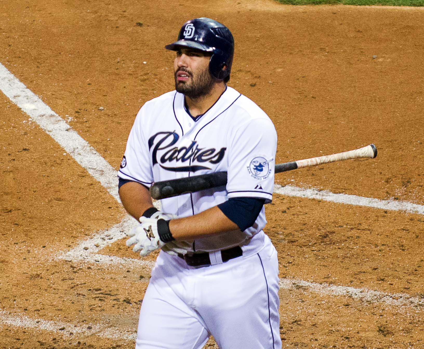 Major League Baseball Player Carlos Quentin of the San Diego Padres at Petco Park August 27, 2012